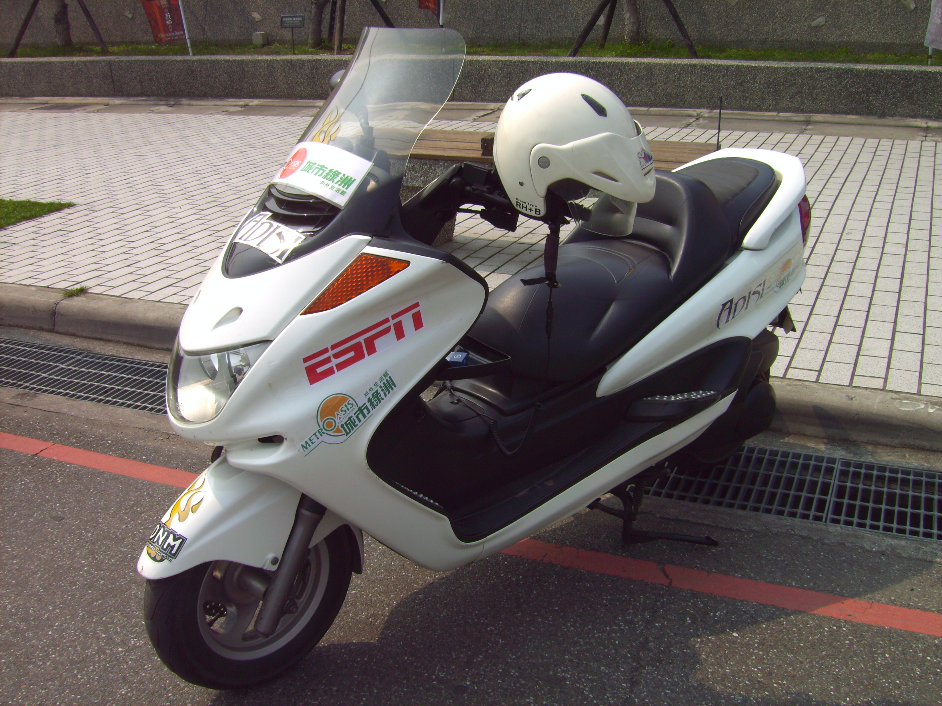 Referees may ride official motorcycle in 2007 Tour de Taiwan.